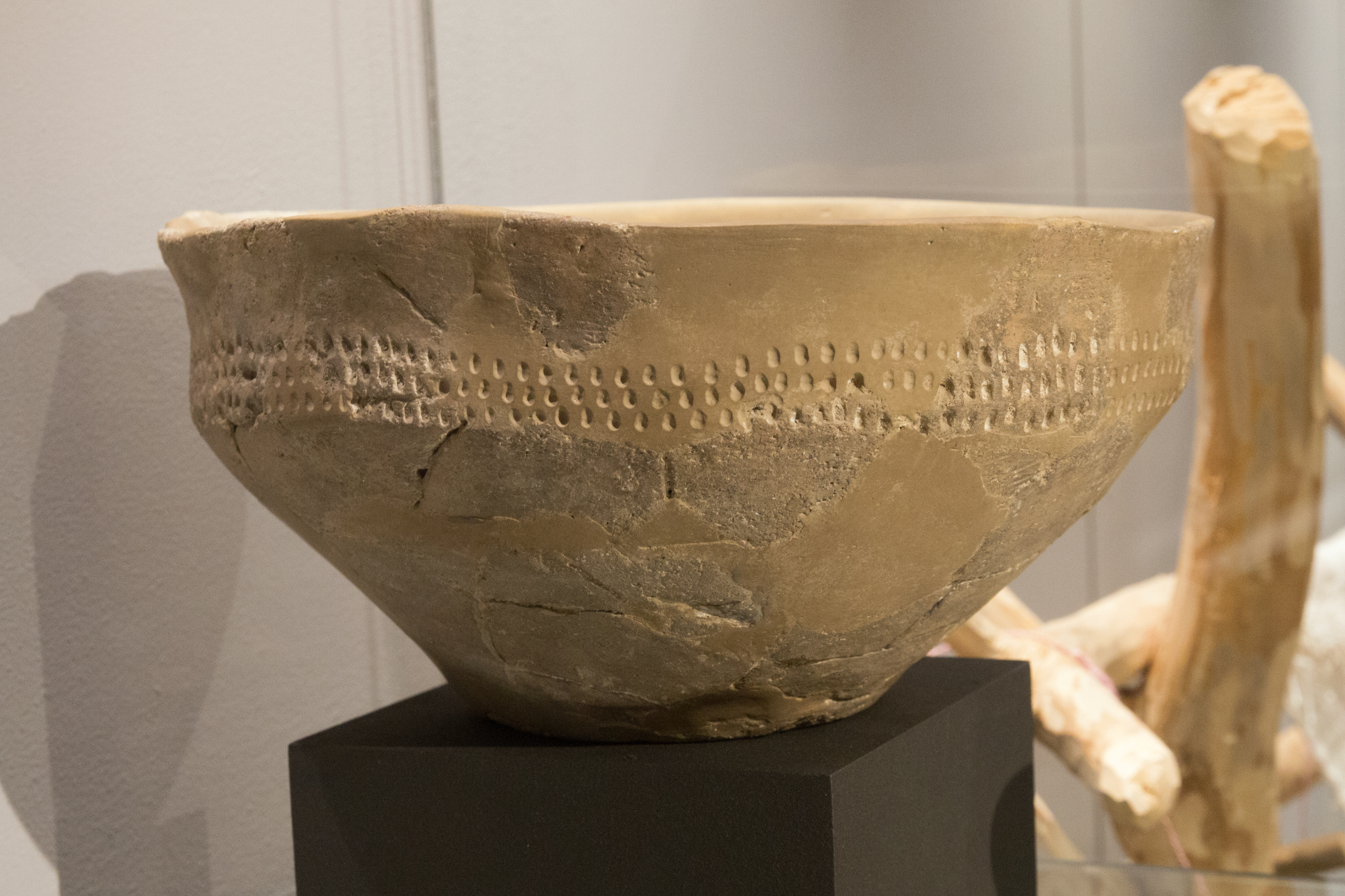 Cham culture pottery. Coper Age. Museum of Western Bohemia in Pilsen.